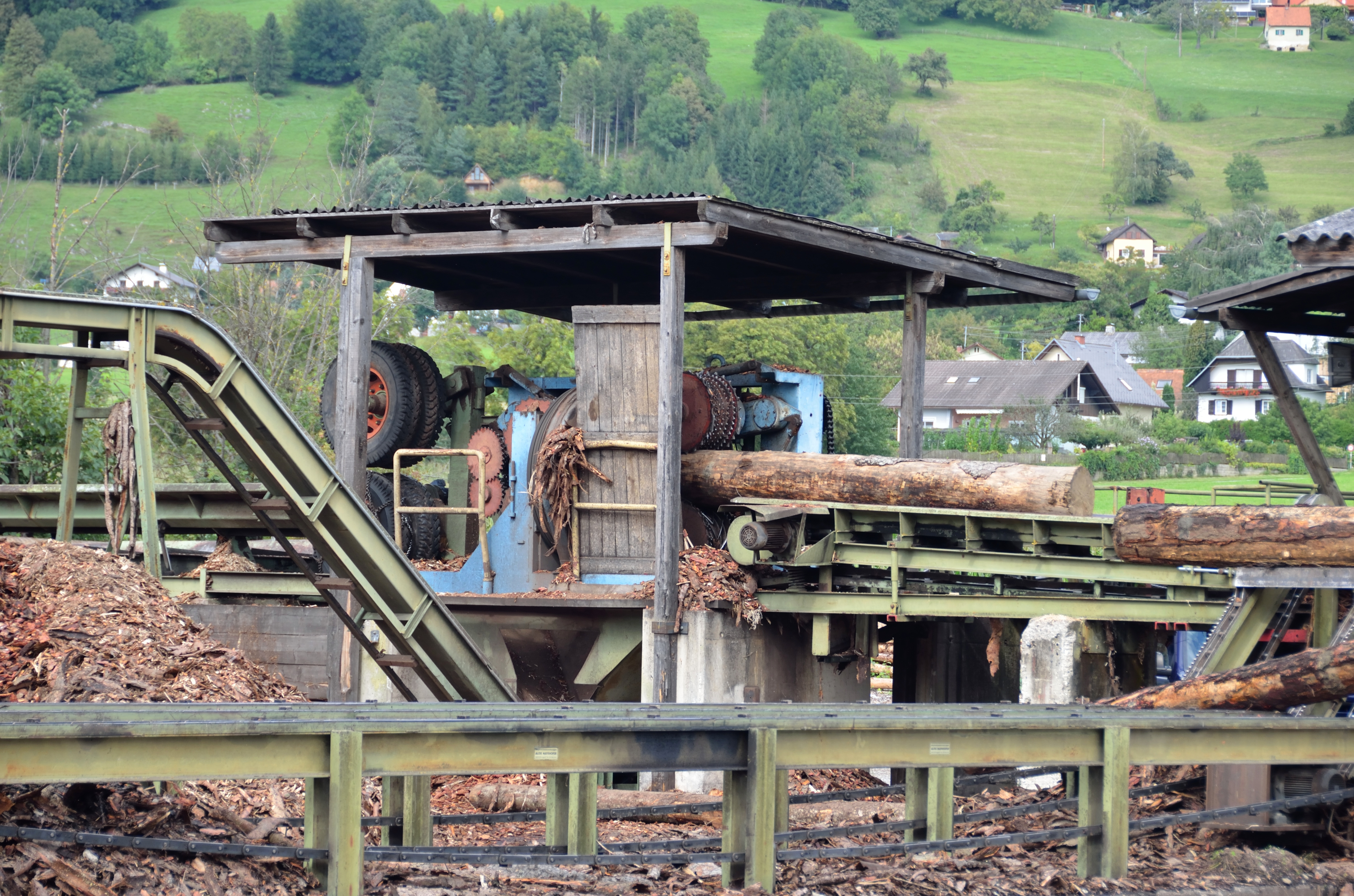 The Sawmill Thannhausen at Thannhausen, Styria belongs to the Gudenus family.